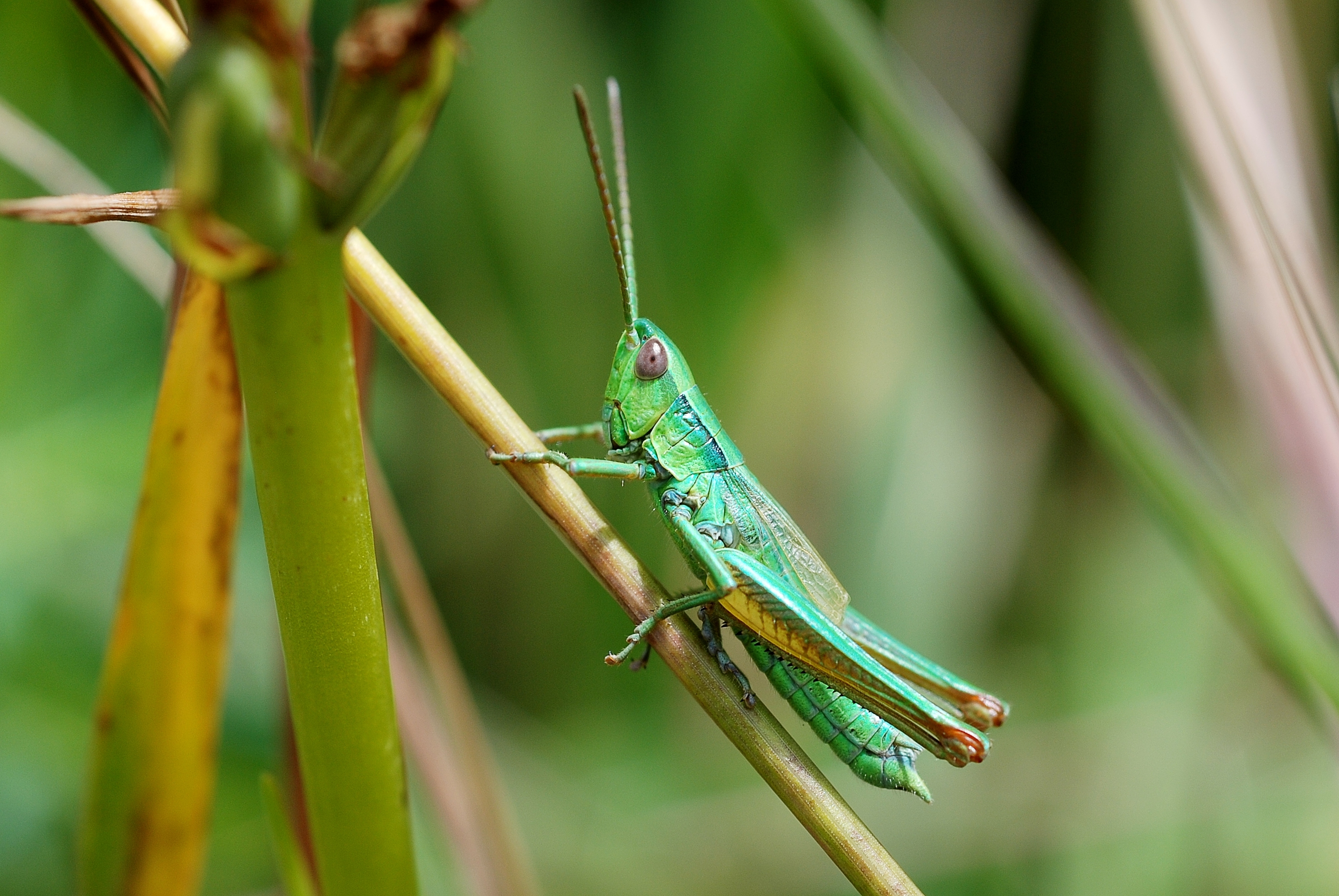 Euthystira brachiptera male